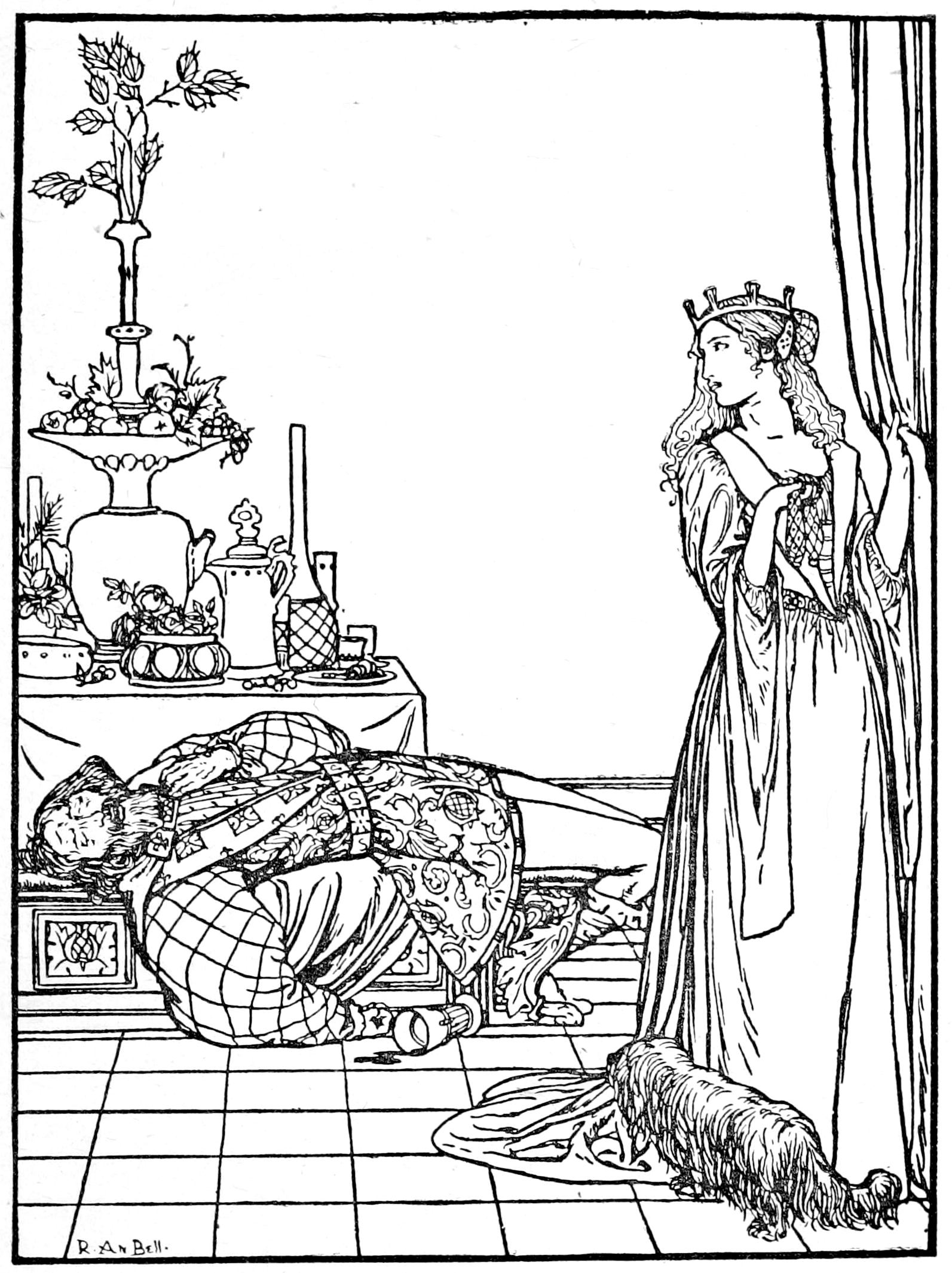 Illustration from a book of fairy tales